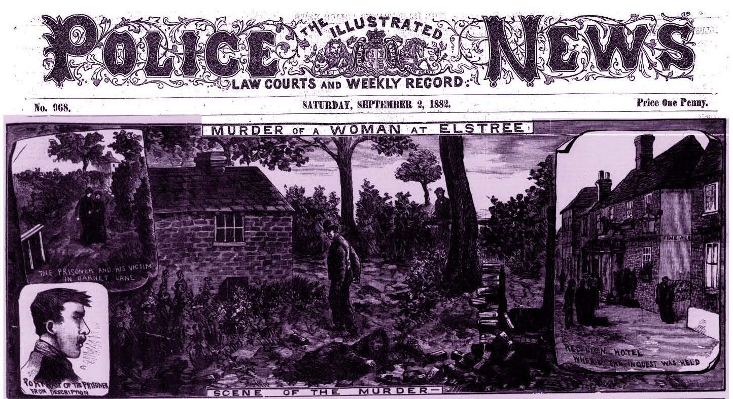 Illustration of the Elstree Murder of Eliza Ebborn on 17 August 1882, by 24-year-old shoemaker George Stratton, who was subsequently sentenced to death